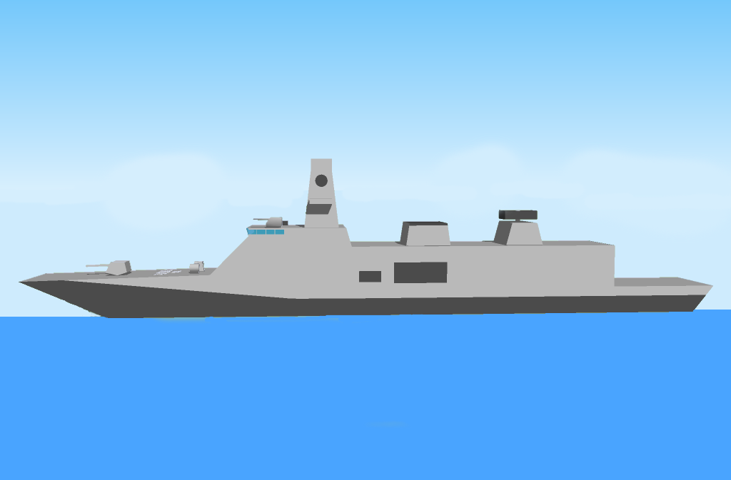 A depiction of a Project 17A class frigate of India made using official images of GRSE, the shipbuilder.